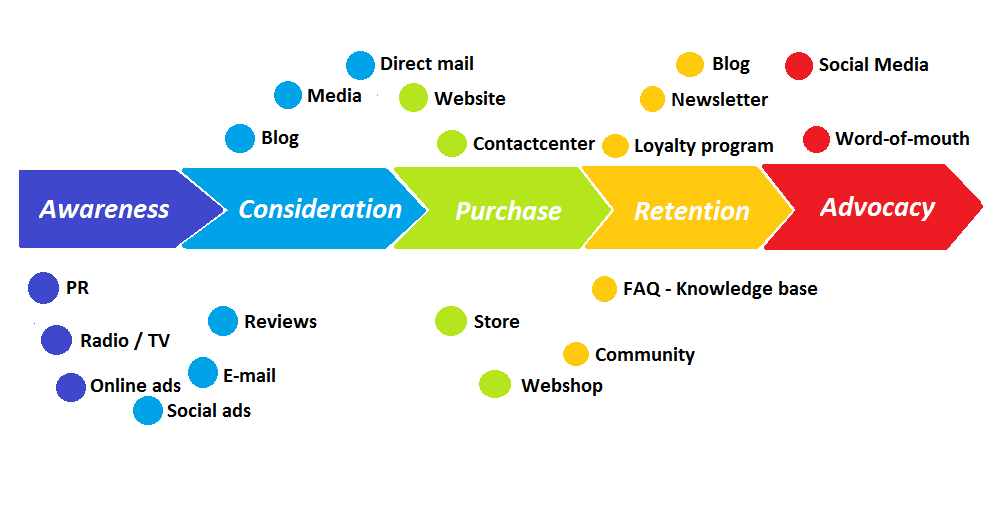 Overflow of phases in the customer journey with media